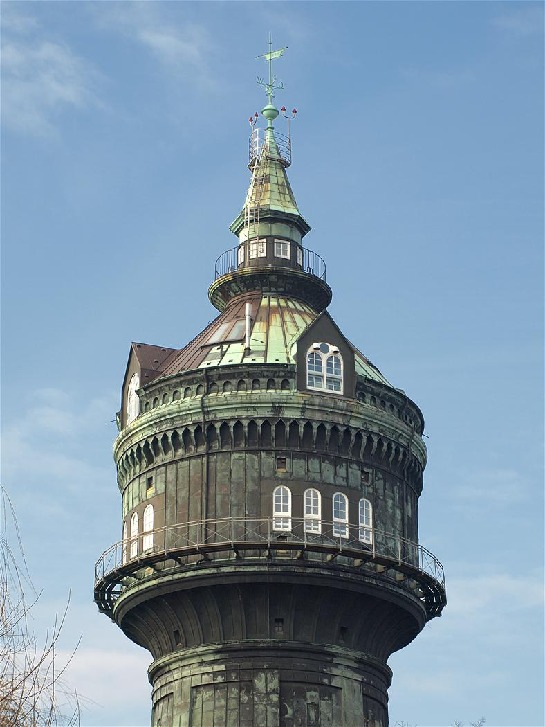 Hamburg-Lokstedt (Germany), water tower , photo 2008